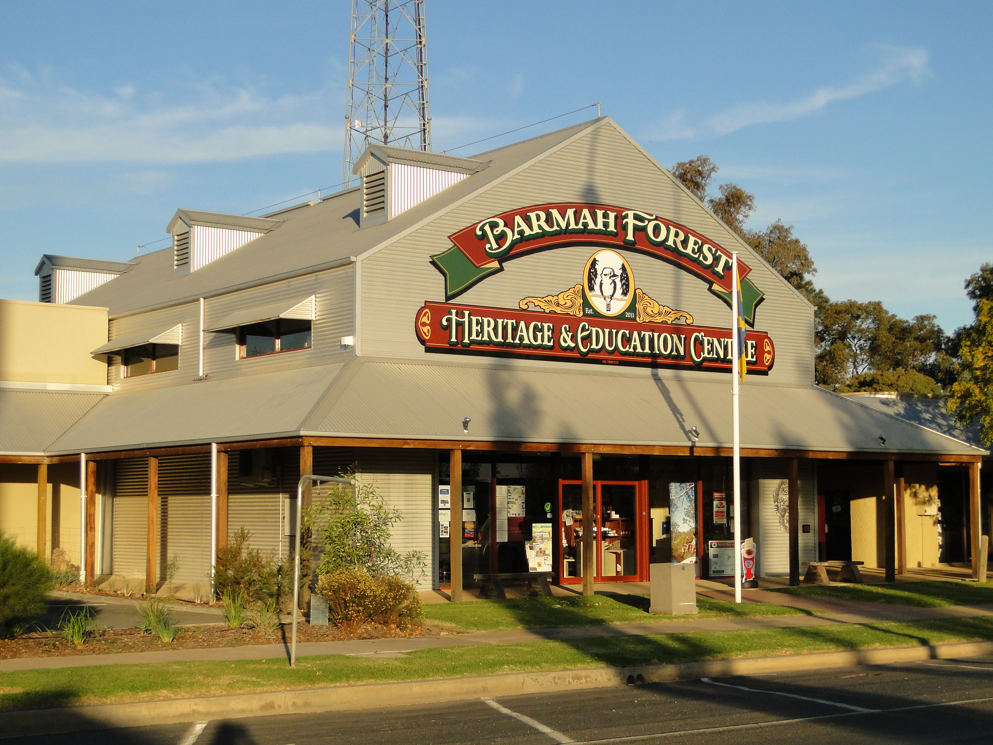 The Barmah Forest Heritage and Education Centre in Nathalia, Victoria, Australia